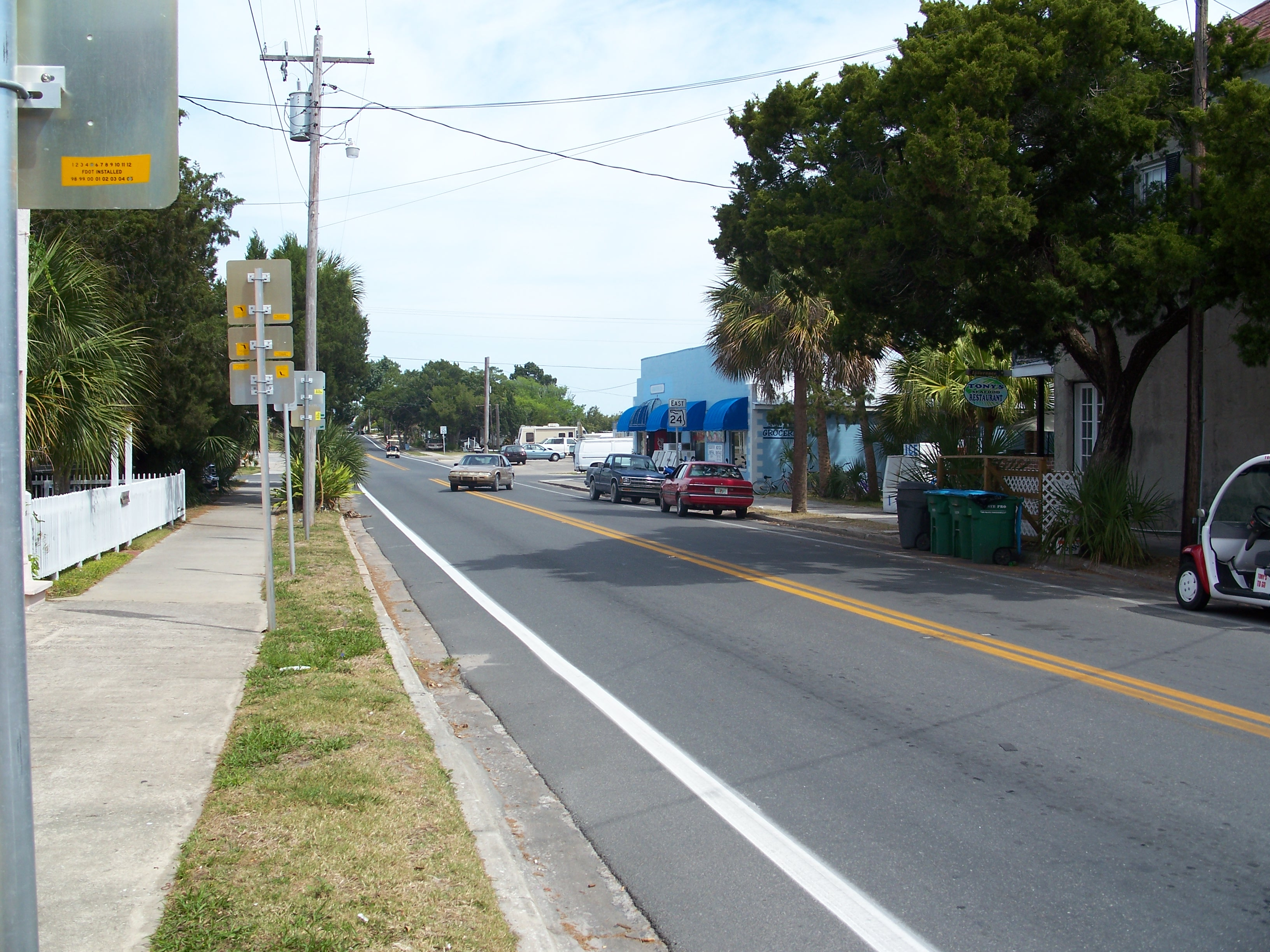 Western end of SR 24, looking west, in Cedar Key, Florida